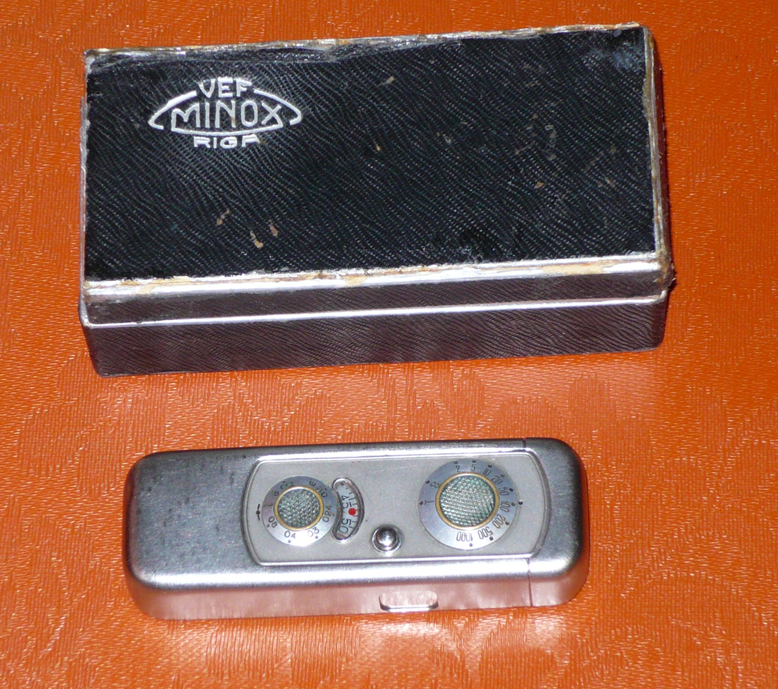 Riga Minox